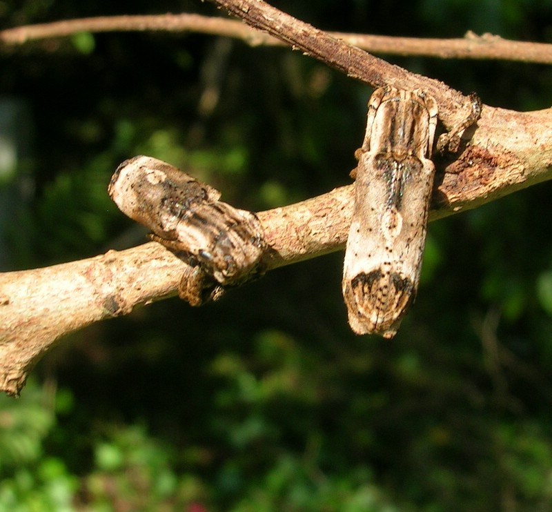 Cerambycid beetle (subfamily Lamiinae, determination courtesy Doug Yanega ) found at Talakaveri, Coorg, India. Lamiinae Pteropliini Sthenias grisator (Fabricius, 1787) determination courtesy Francesco Vitali